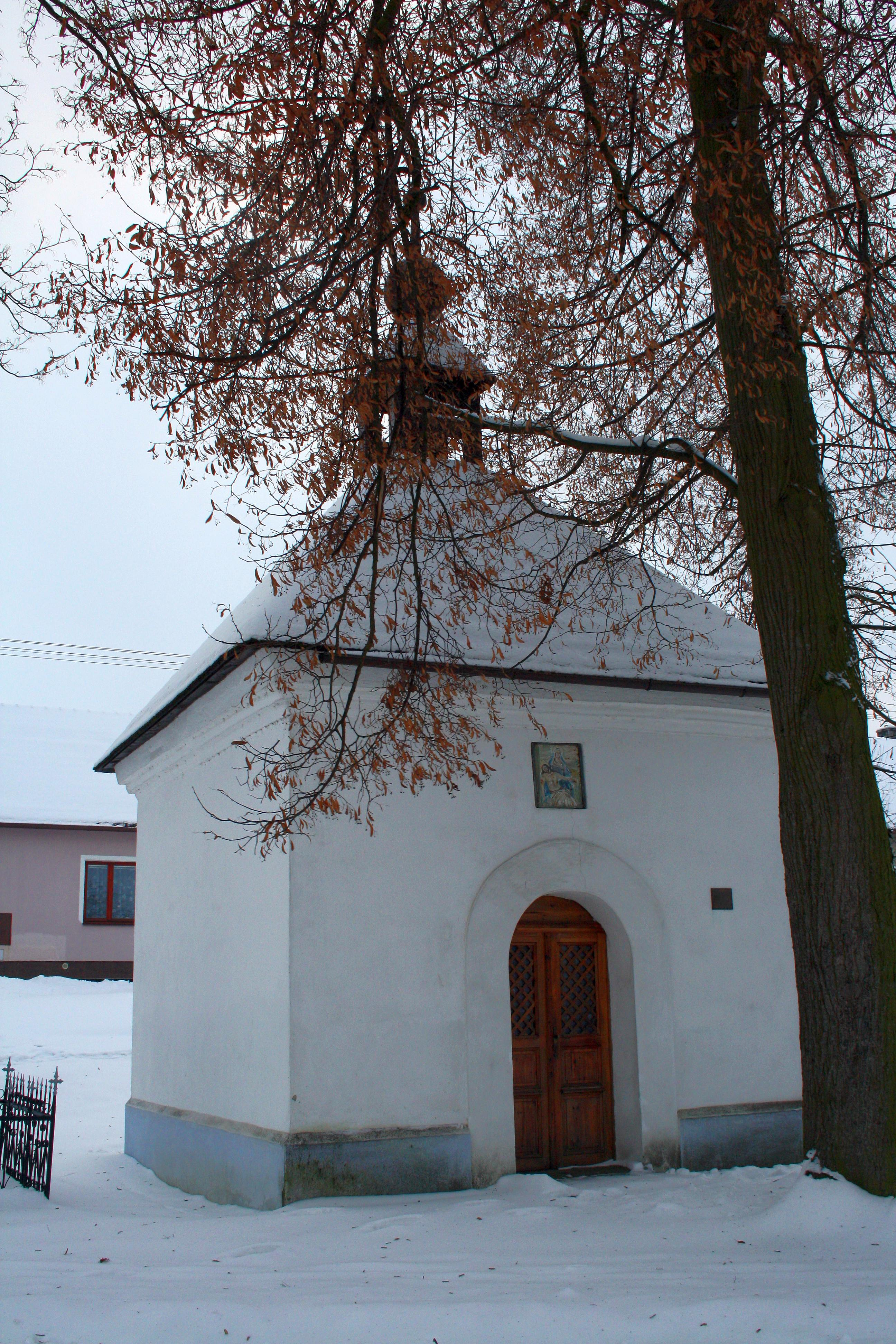 Chapel in Hodov, Czech Republic (winter).